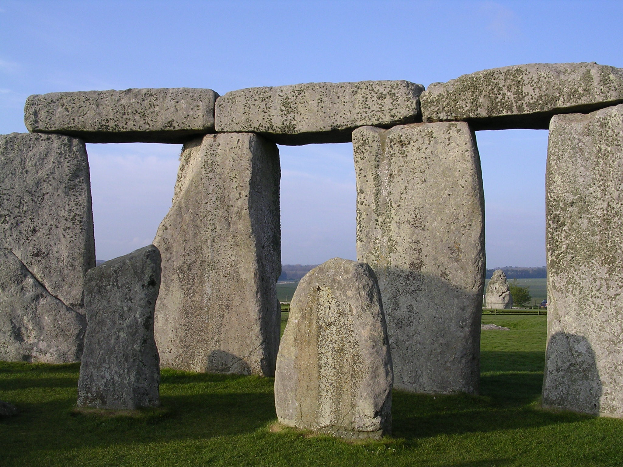 Picture taken in the afternoon from within the inner circle towards north-east. Behind the hinged megaliths, the Heel stone can be seen. Taken at April 23, 2005 7:46 pm GMT. Photo by Kristian H. Resset, Norway.